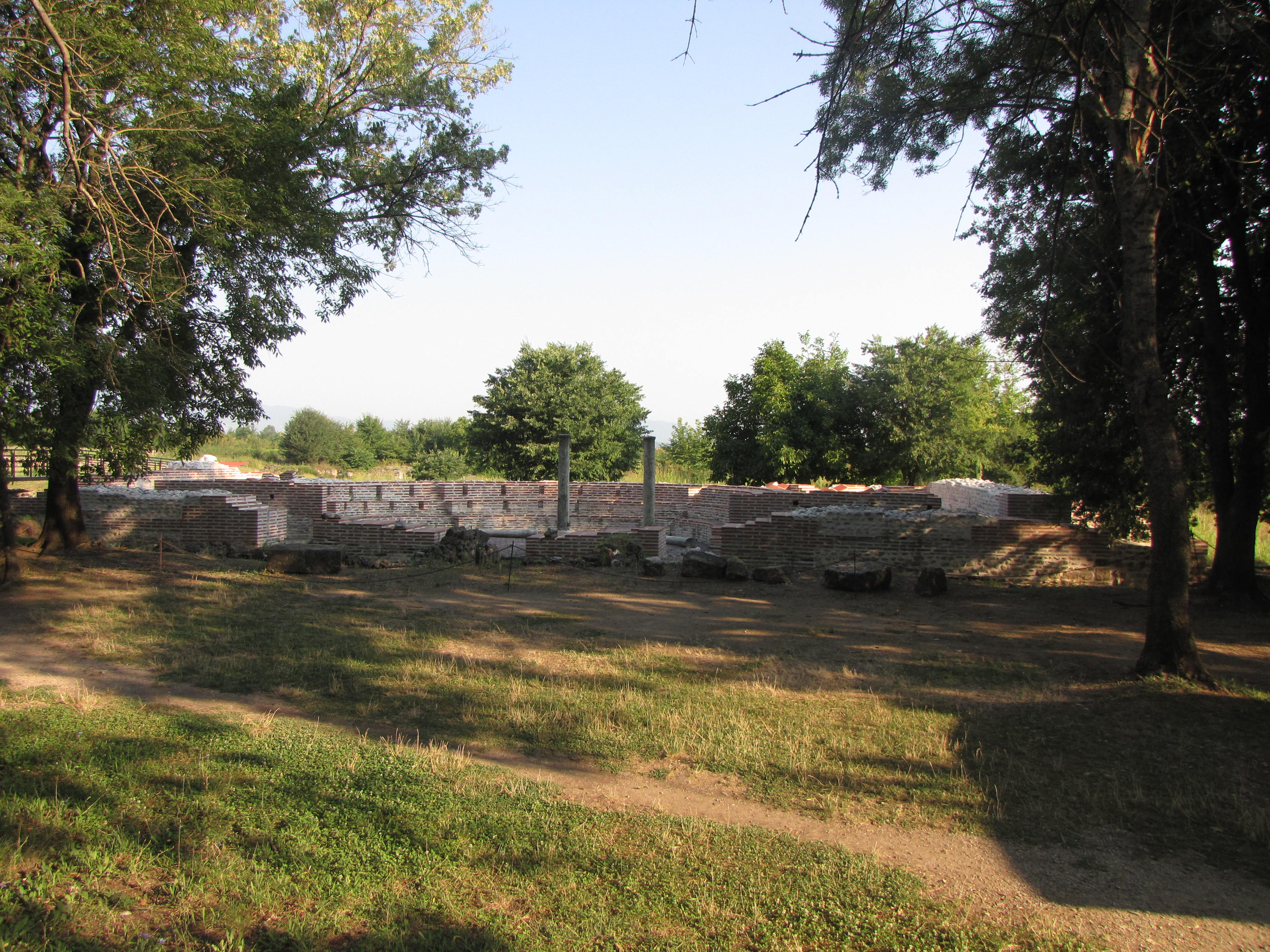 The Odeon after renovation